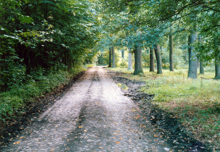 Old village street in Pröbsten with cobblestones, 1985. Abandoned village in the Heidmark region of Lower Saxony, Germany